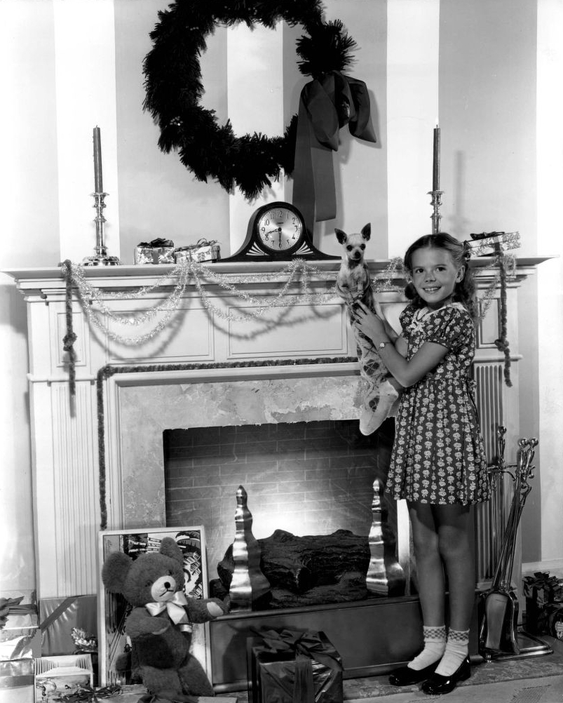 Natalie Wood and Mexican Chihuahua, given her by cast of Scudda Hoo! Scudda Hay! (aka Summer Lightning).